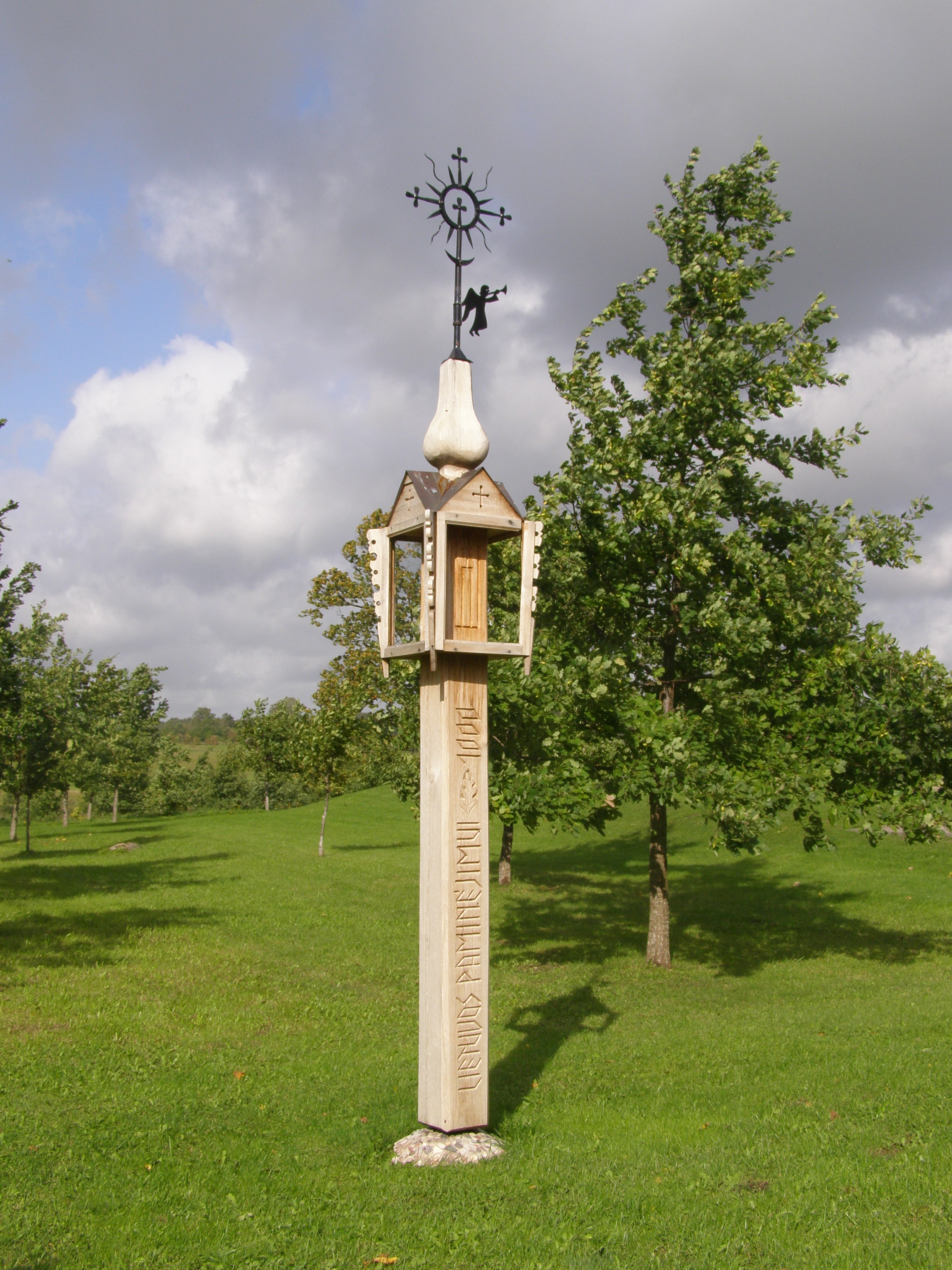 Nasrėnai, Kretinga district, LithuaniaLietuvių: Lietuvos tūkstantmečio koplytstulpis Nasrėnuose, Kretingos rajonas, Lietuva